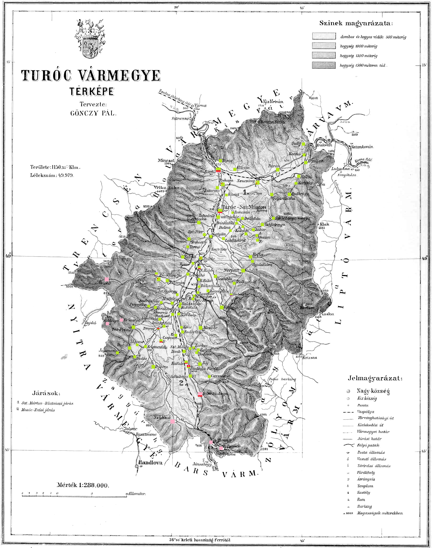 Ethnic map of the county (with data of the 1910 census). Key: light green - Slovaks; pink - Germans; red - Hungarians. Coloured dots in plain rectangles imply the presence of smaller minority populations (generally more than 100 people or 10%). Multicoloured rectangles imply cities and villages with multi-ethnic populations with the order of the stripes following the ethnic composition of the settlement.